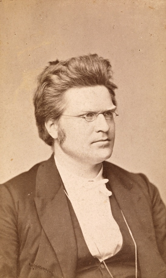 Bjørnstjerne Bjørnson in 1868